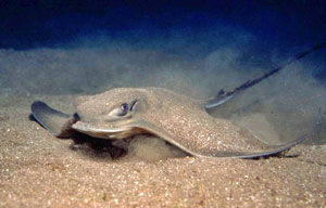 Picture of Myliobatis aquila